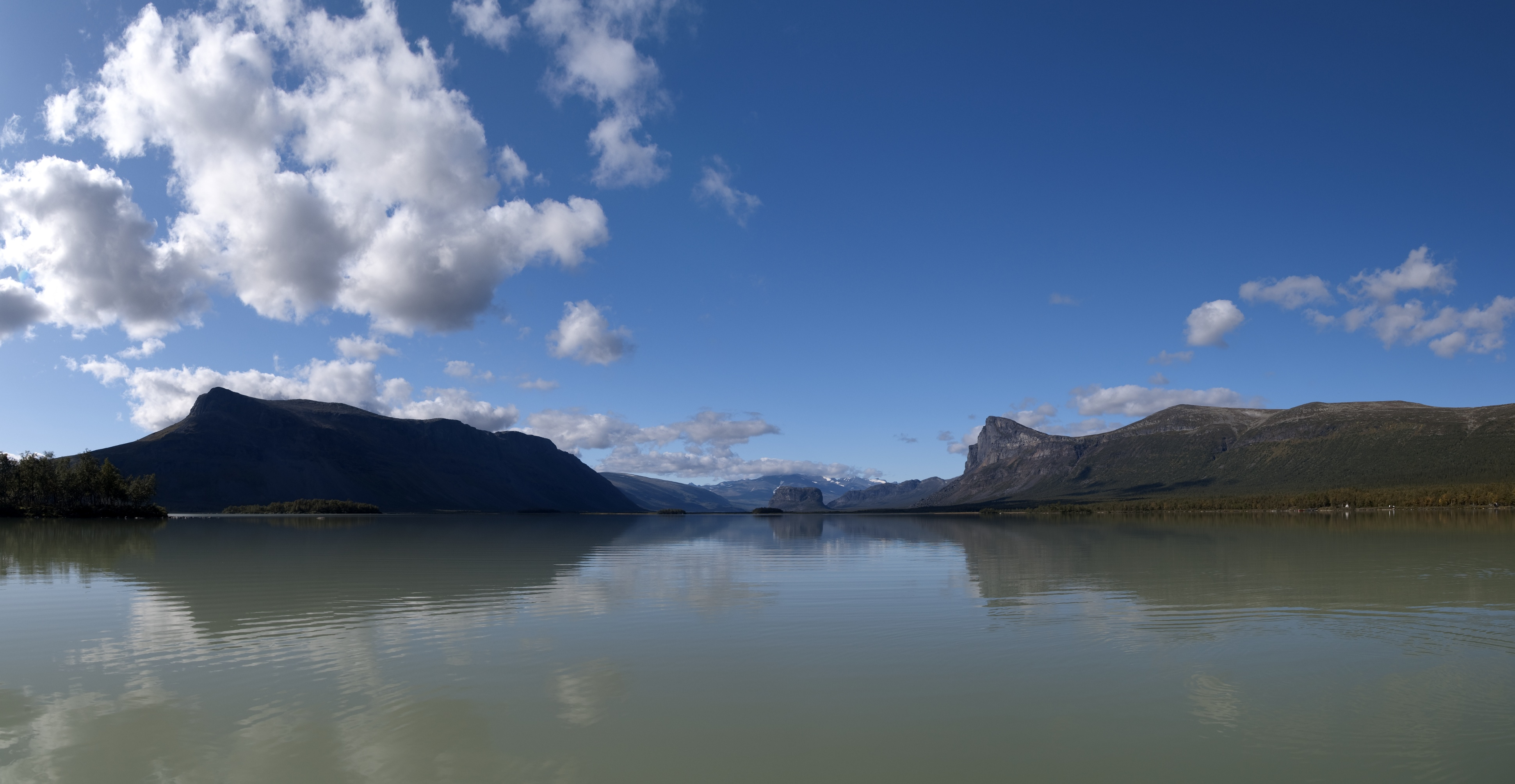 View into Rapadalen with Skierffe on the right